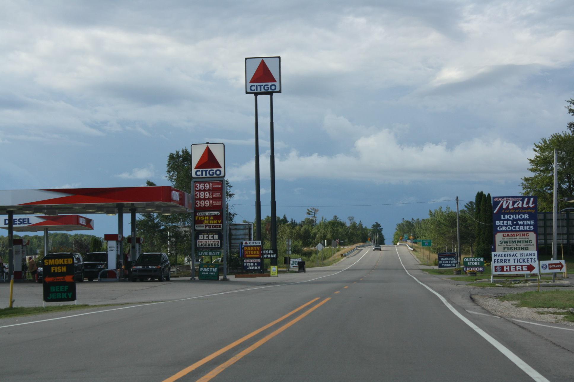 The former southern terminus of M-108 (Michigan highway) in Mackinaw City, Michigan after its decommision.